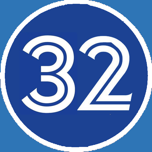 Illustration of Roy Halladay's #32, retired by Toronto Blue Jays